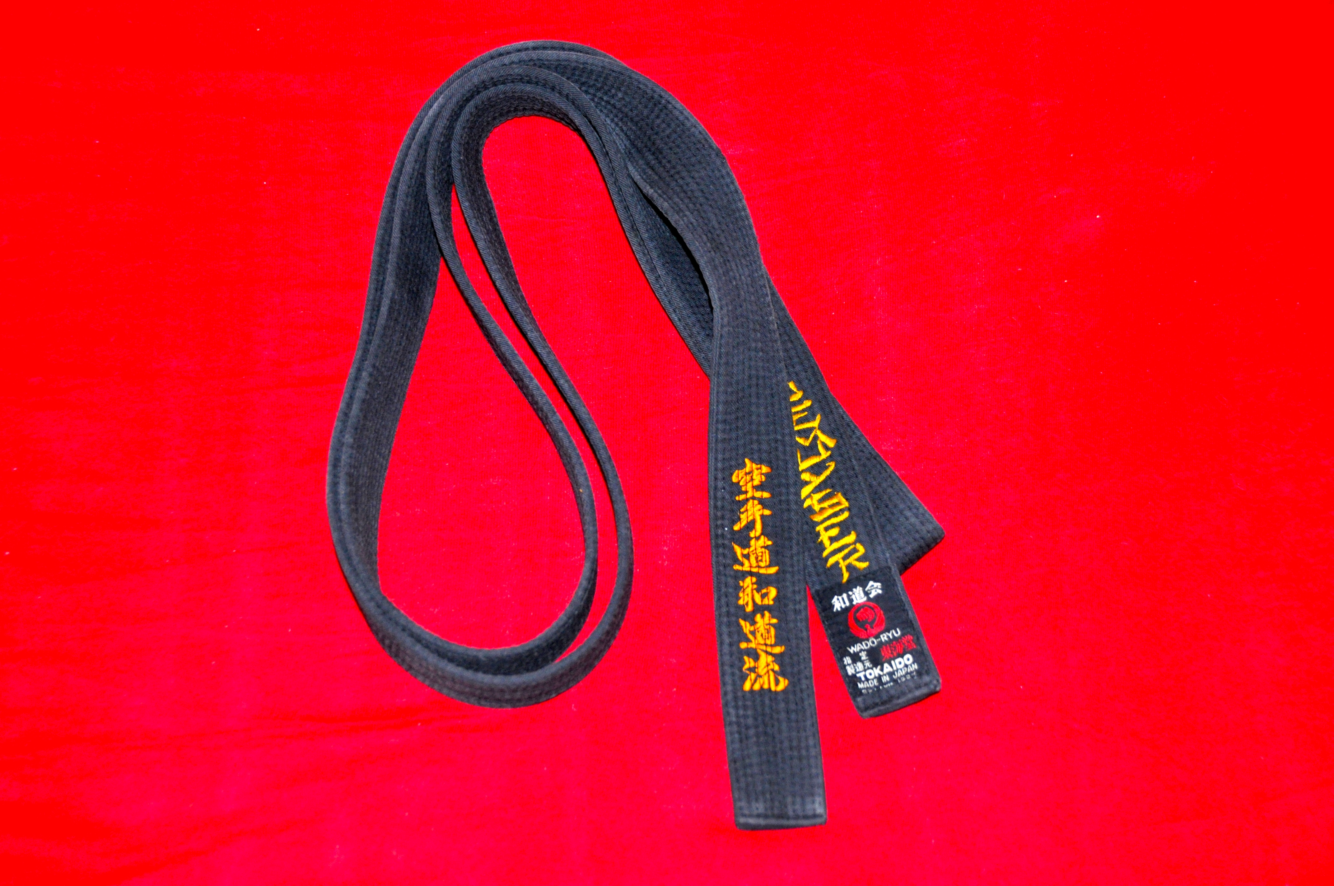 Black Belt wadō-ryū by Gilles de Muyser